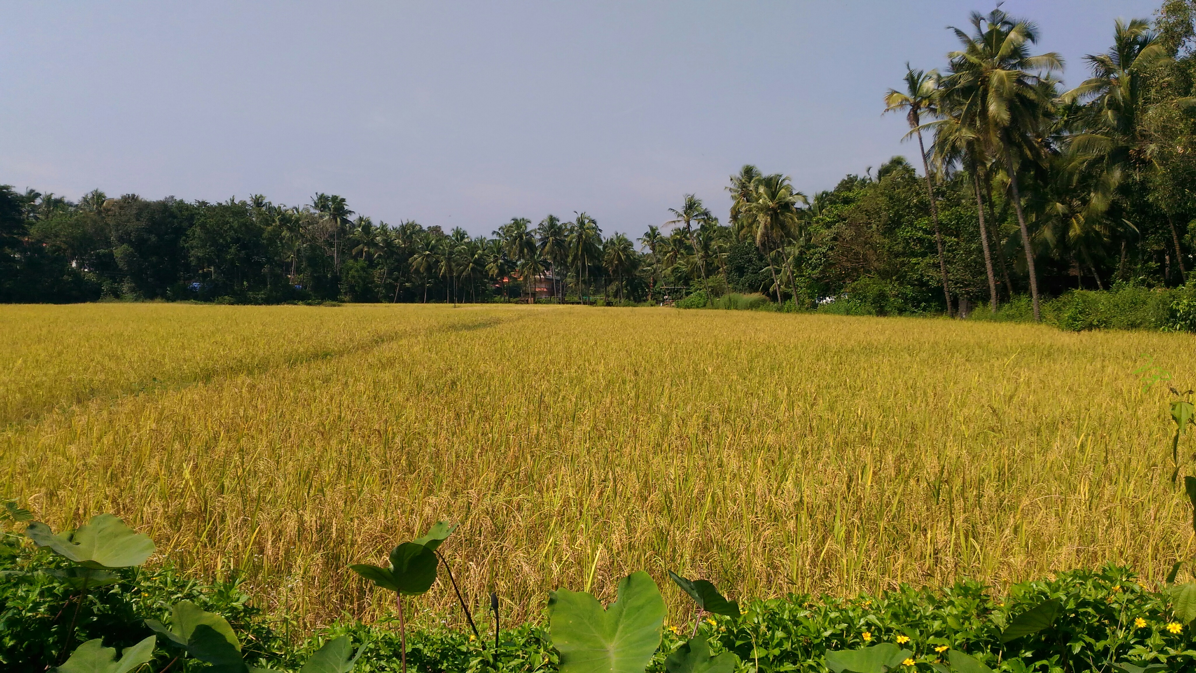 paddy field_ready to yield